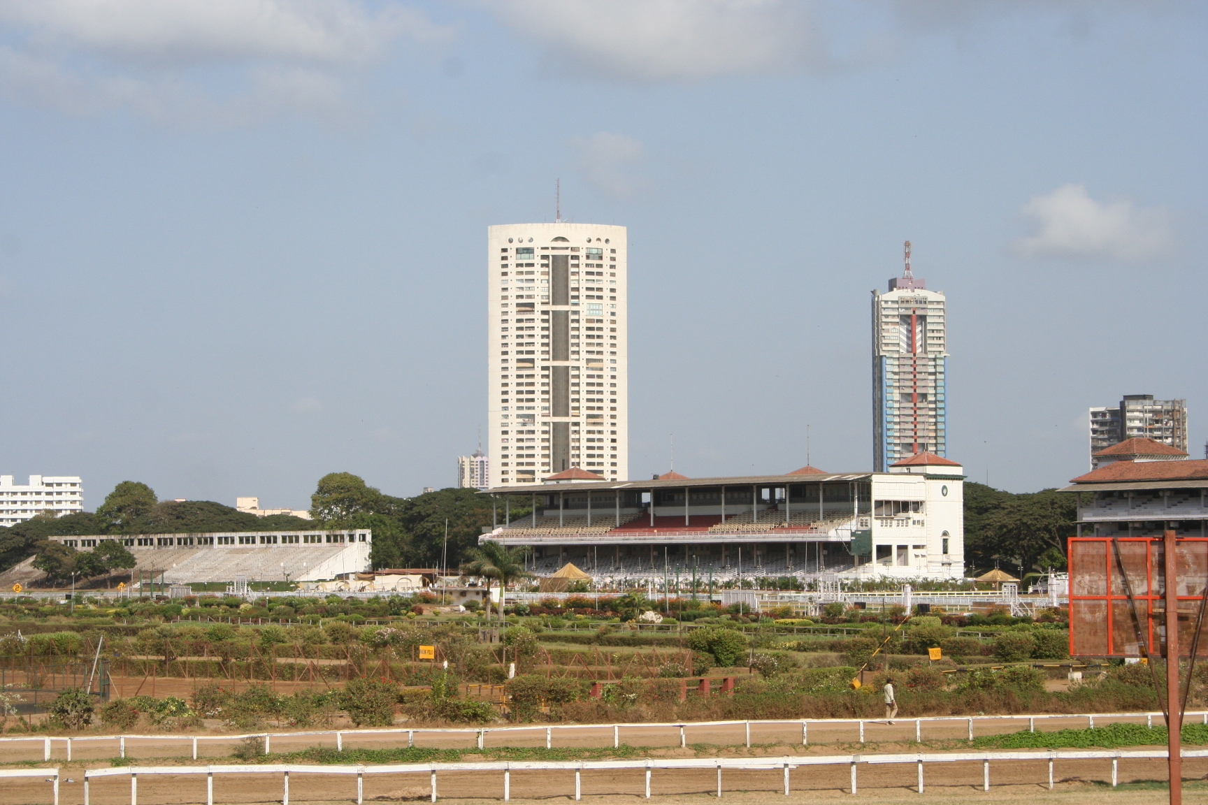 The pavilion of the Mumbai Race Course. The tall buildings in the background are in the central Mumbai area of Parel. This area is undergoind rapid transitions as abandoned mills are being converted to residential, commercial and retail spaces.